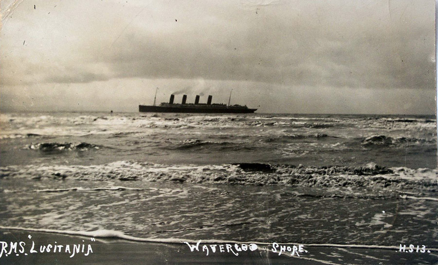 RMS Lusitania Post card dated 1908 of Lusitania passing Waterloo Shore near Liverpool